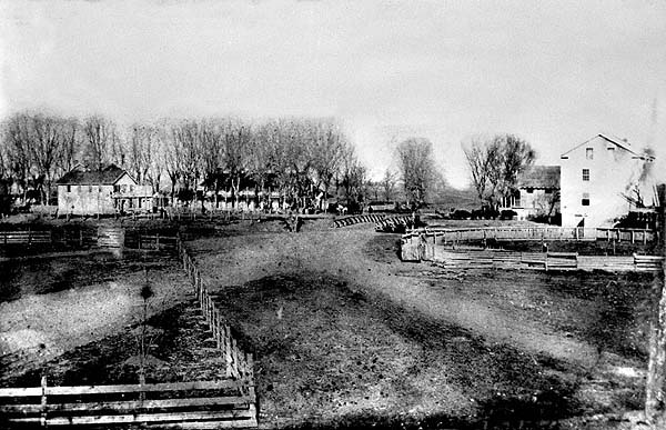 One of the earliest images of Chico, California ca. 1856. Bidwell Store, Adobe, and Flour Mill.